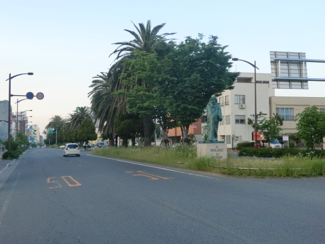 This is Fukuoka Prefectural Road No 23.Taken in Kurume city in Fukuoka prefecture,Japan.